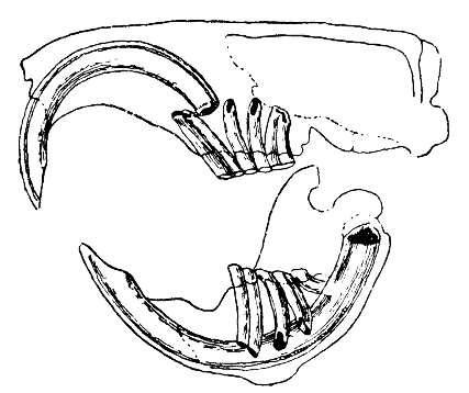 The dental system of a rodent